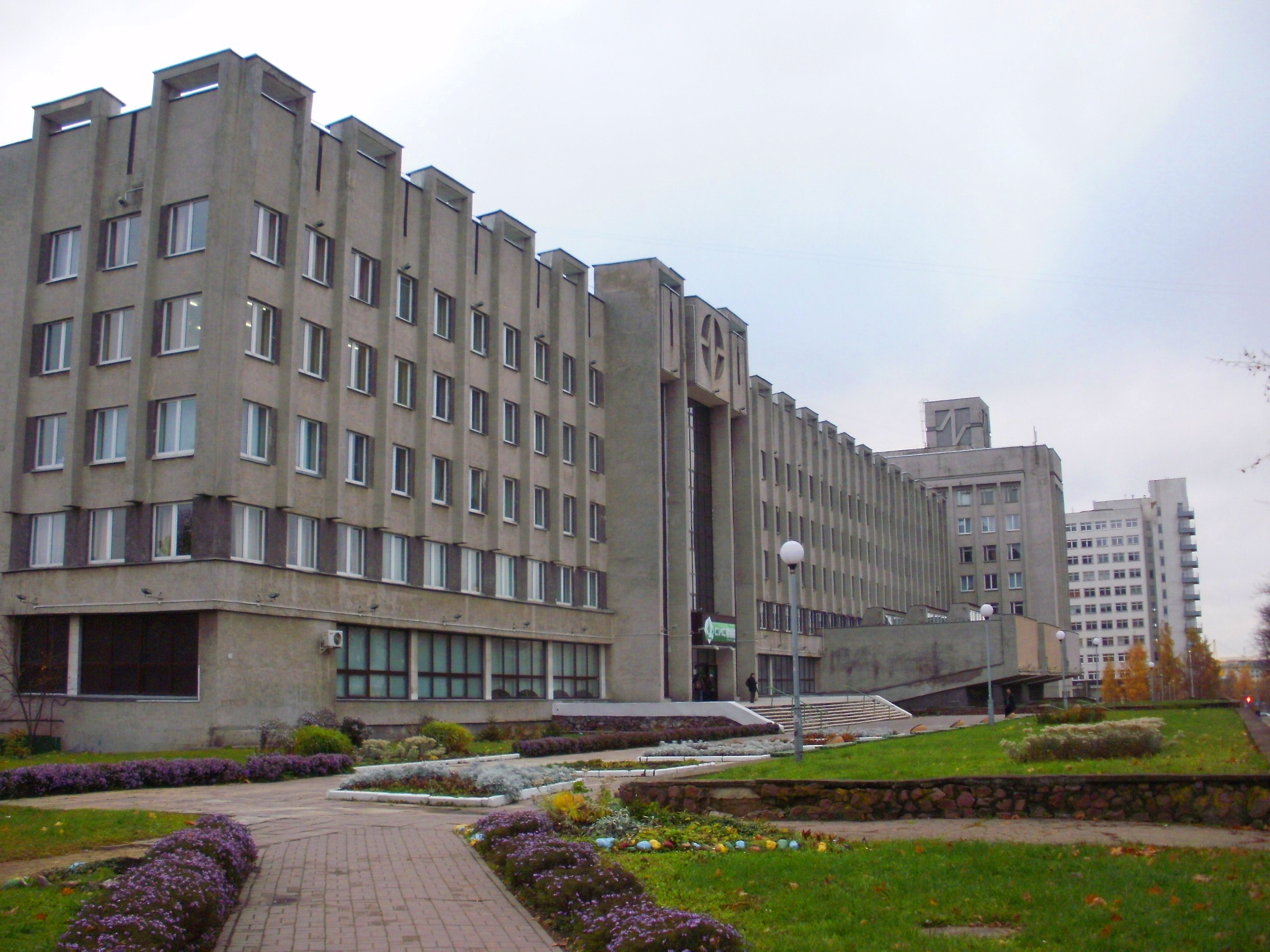 BSUIR (Minsk, Belarus), buildings 4 (on the left) and 5 (on the right)